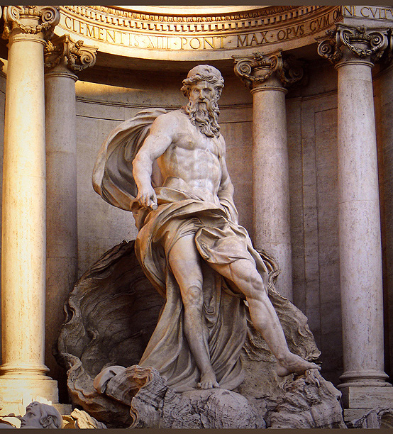 Neptune, Fontana di Trevi, Rome